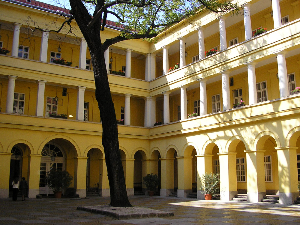 The archades of the ceremonial courtyard of the County Hall, Budapest, Hungary